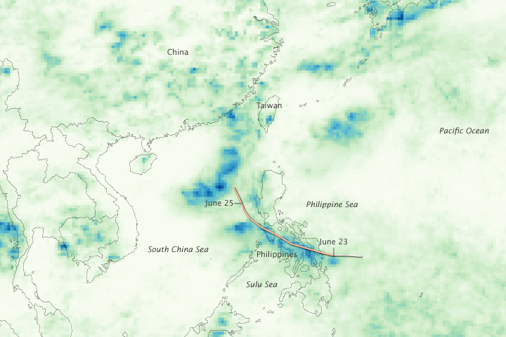 This image shows rainfall in the vicinity of the South China Sea between June 18 and June 25, 2009. The greatest amounts of rainfall, up to 400 millimetres, appear in deep blue. Superimposed onto the rainfall amounts is a storm track for Nangka. The colour shift on the storm track indicates where the storm intensified from a tropical depression to a tropical storm, with wind speeds of at least 65 kilometres per hour.